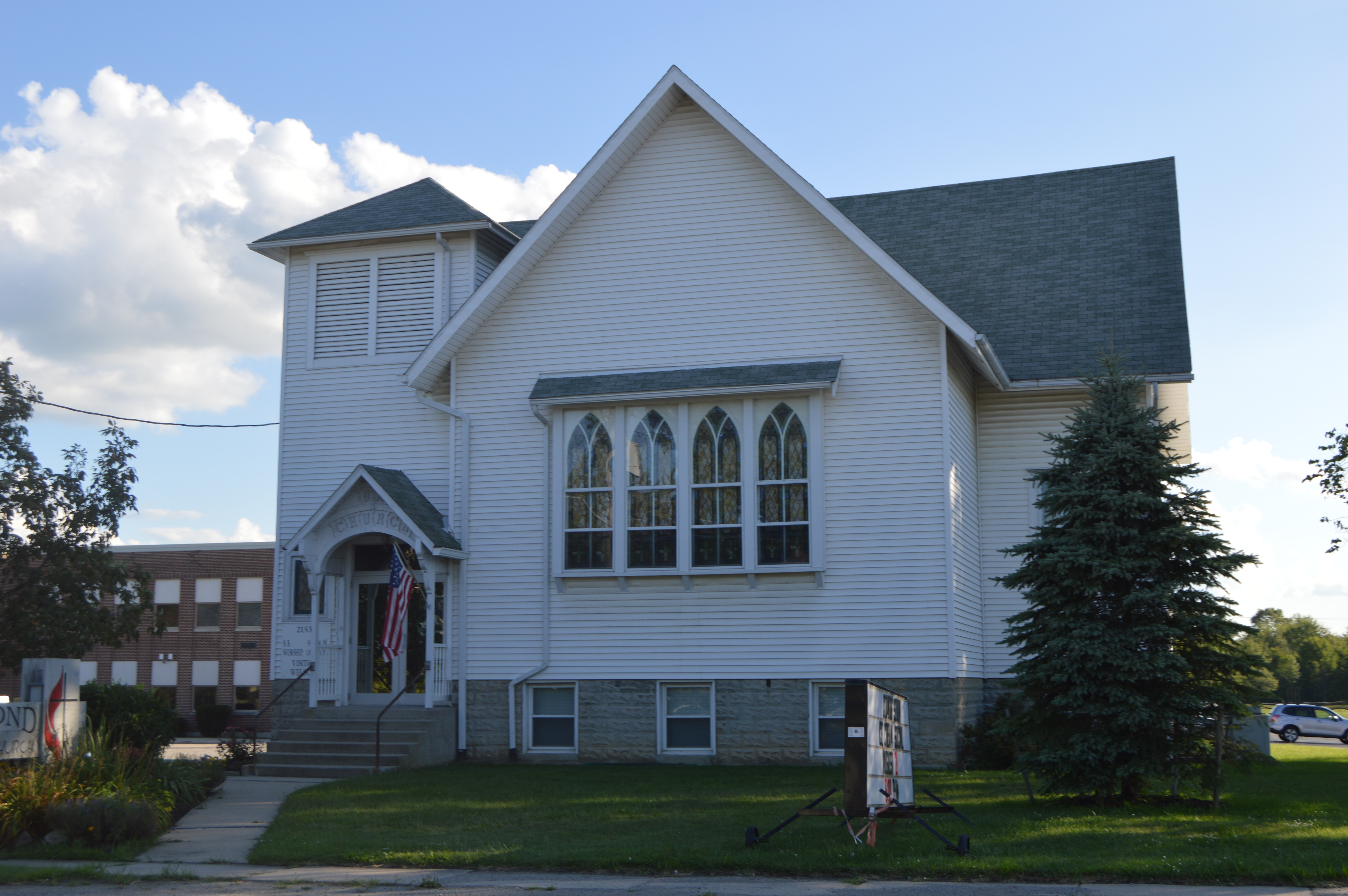 Front of the Raymond United Methodist Church, located at 28170 State Route 739 in Raymond, Ohio, United States.